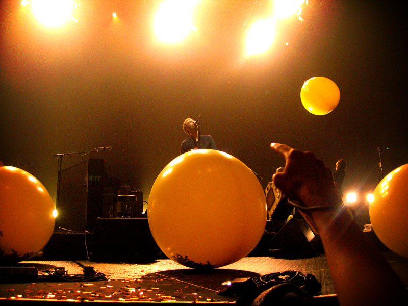 English alternative rock band Coldplay performing their 2000 single "Yellow"